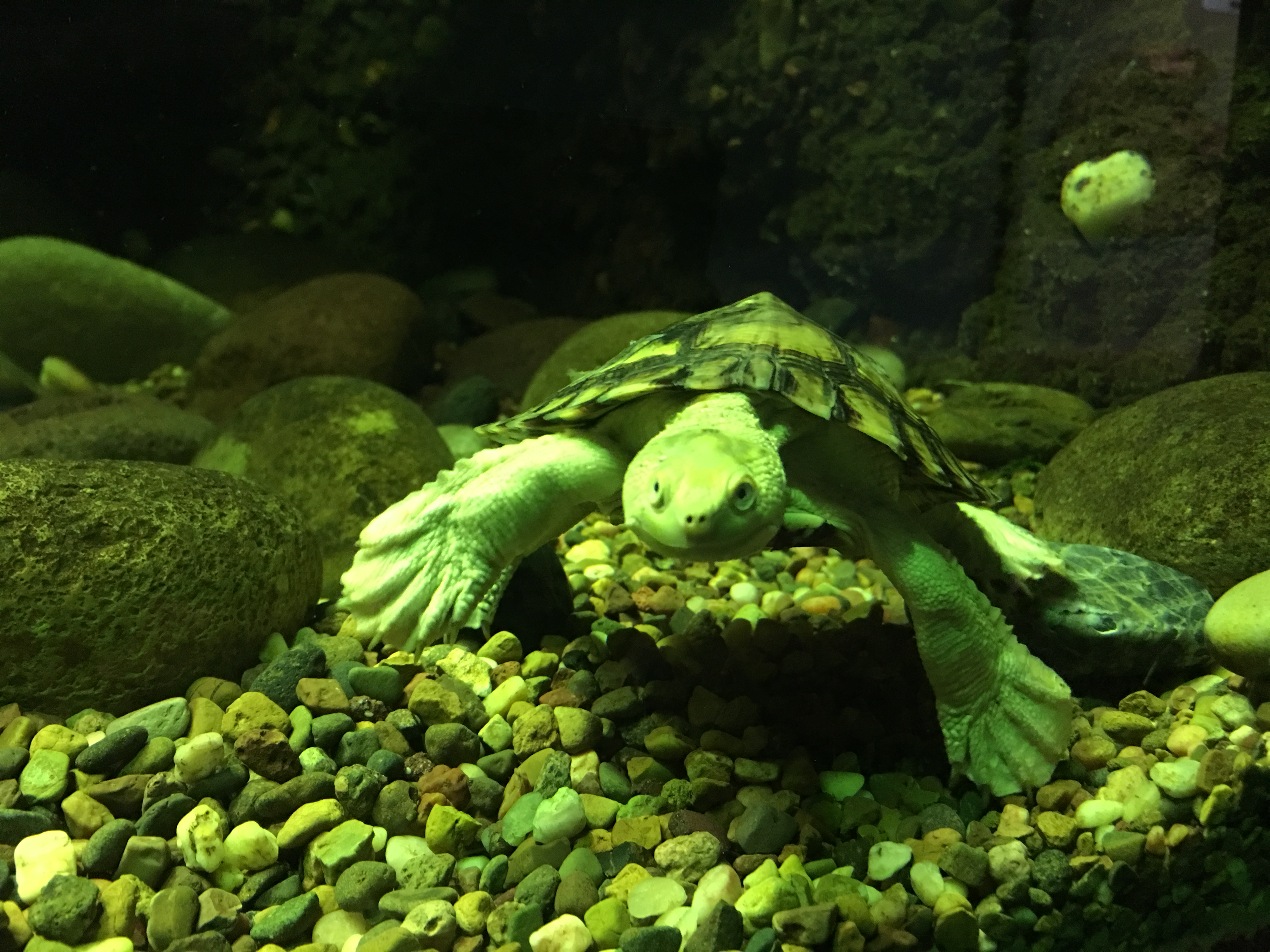 Bellinger River turtle (Myuchelys georgesi) in an aquarium at Taronga Zoo Sydney. Front view, underwater. Photograph has a colour cast due to the artificial lighting and filtering effect of the water.